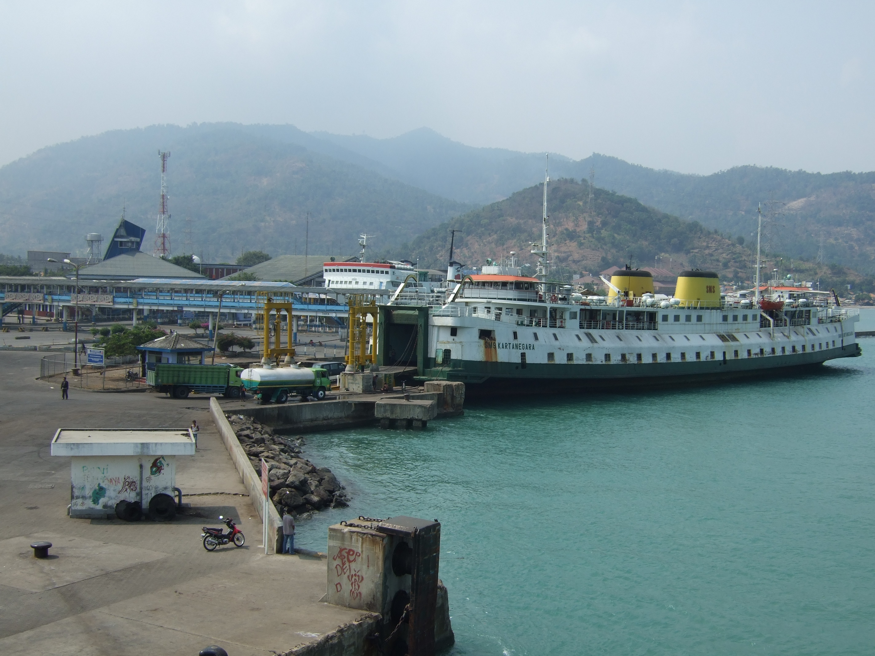 KMP SMS Kartanegara, Port of Merak Ex PRINSES MARGRIET IMO number: 6524773